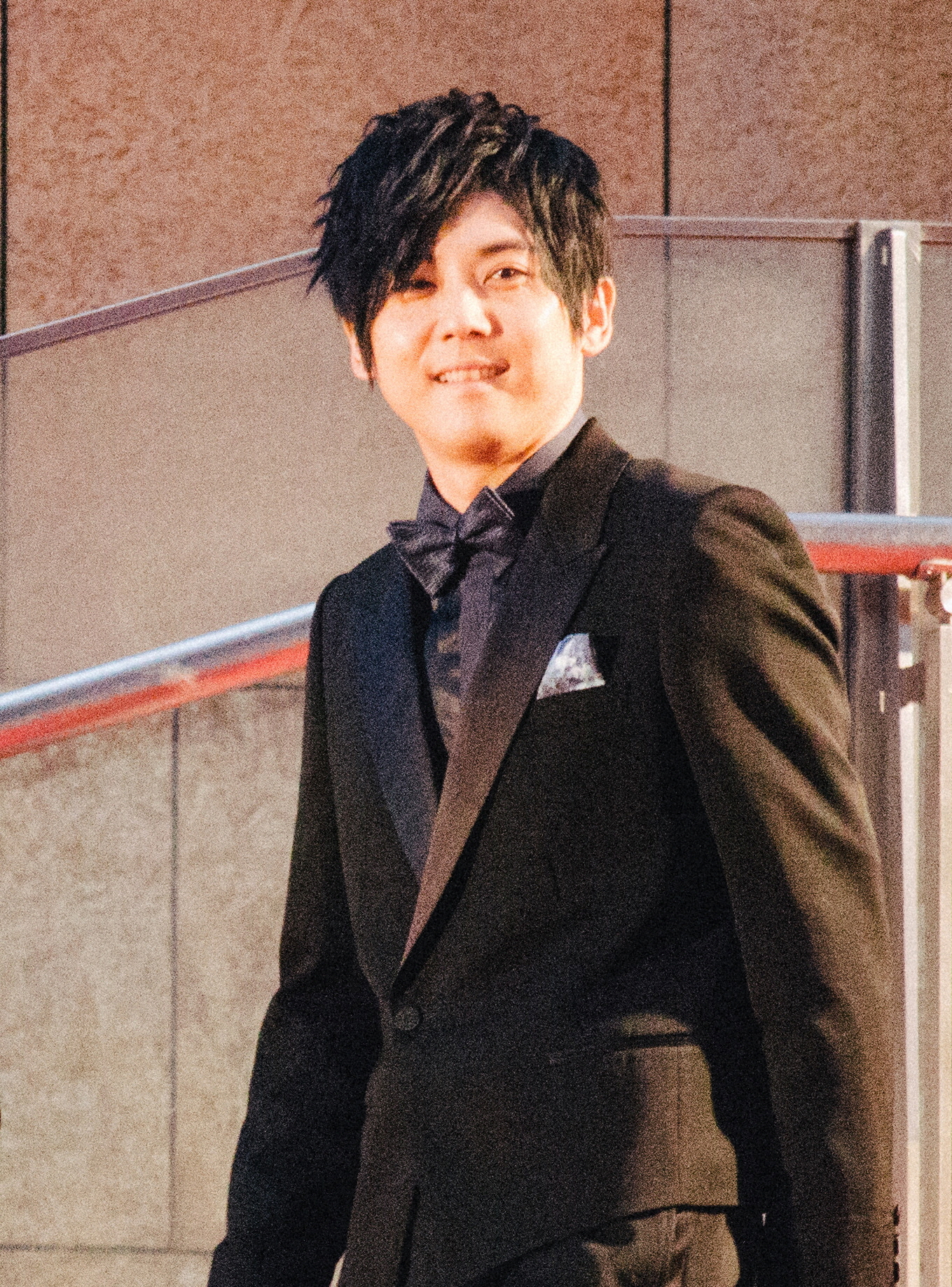 27th Tokyo International Film Festival Yūki Kaji